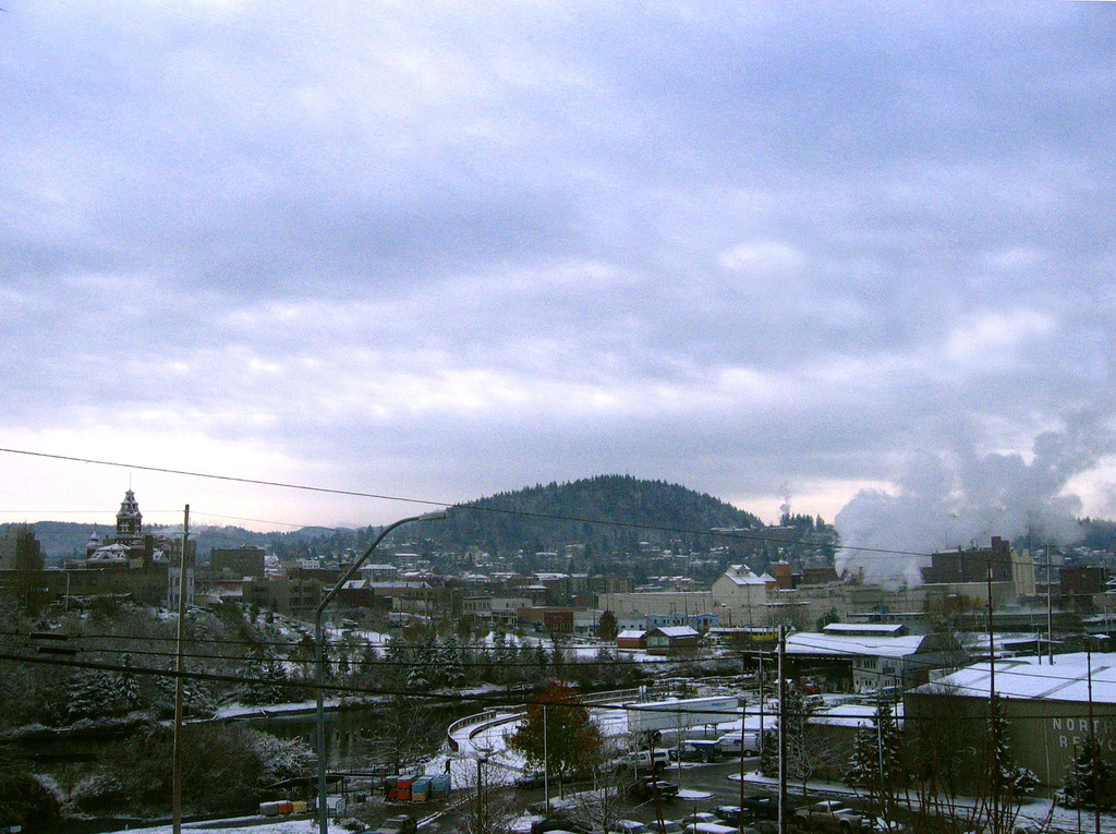 South Downtown Bellingham and Sehome Hill as seen from above Maritime Heritage park Taken from Orig. picture by Josh Parrish